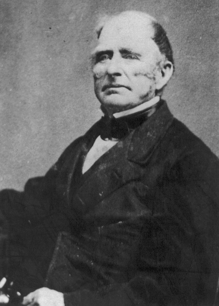 Mayhew Beckwith, M.P.P. Nova Scotia Colony 1841-1851, representing Cornwallis area. Picture taken prior to 1871 but exact date unknown.